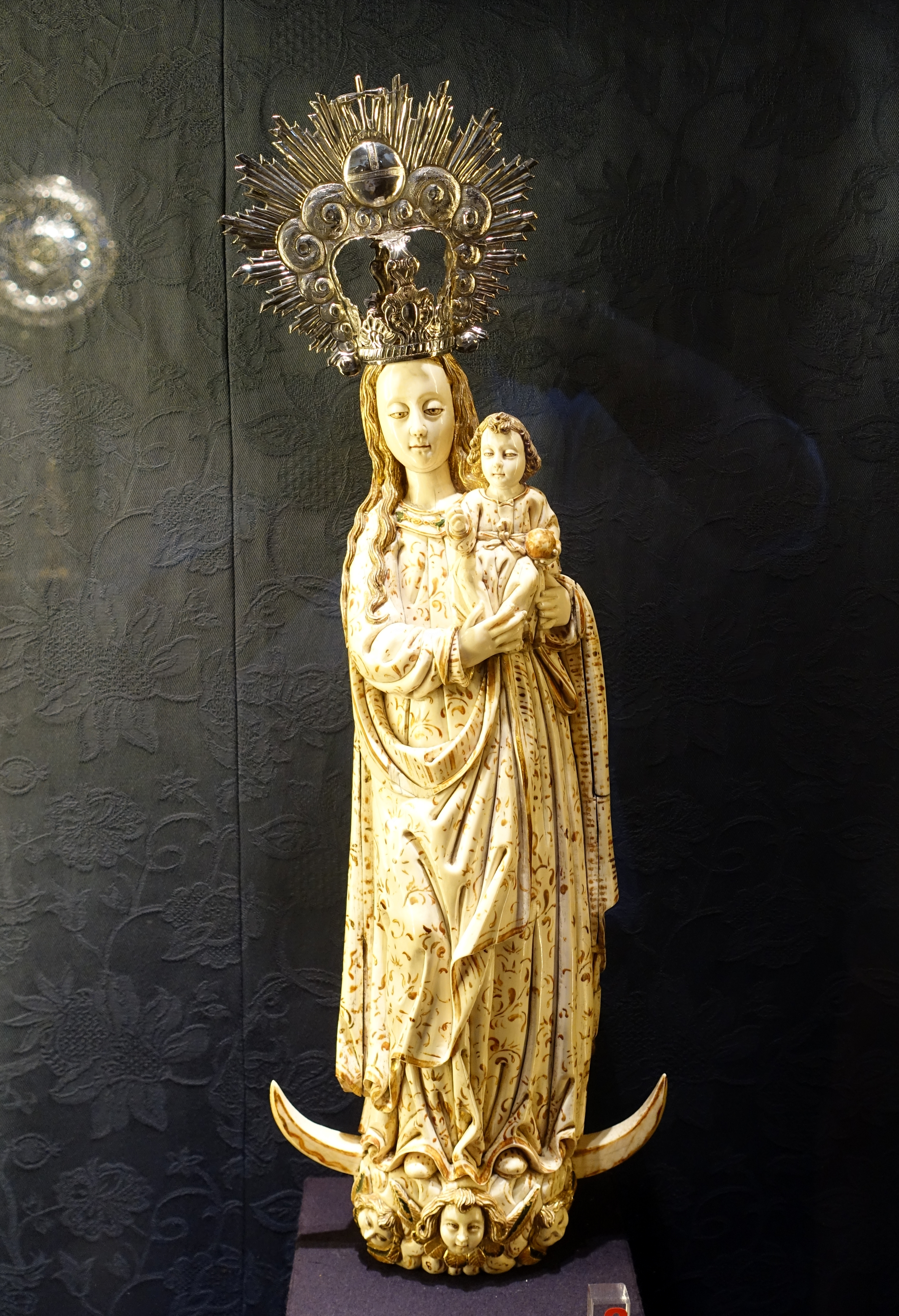 Exhibit in the Treasury of the Cathedral of Seville, Sevilla, Spain. This work is old enough so that it is in the public domain.